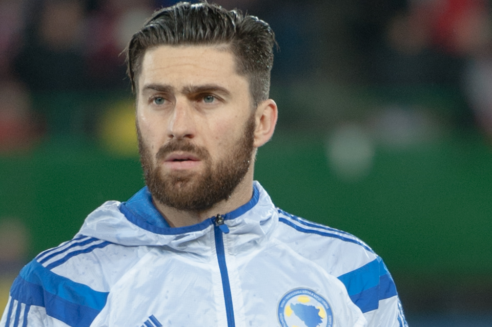 International friendly Austria vs. Bosnia and Herzegovina, 2015-03-31, Vienna